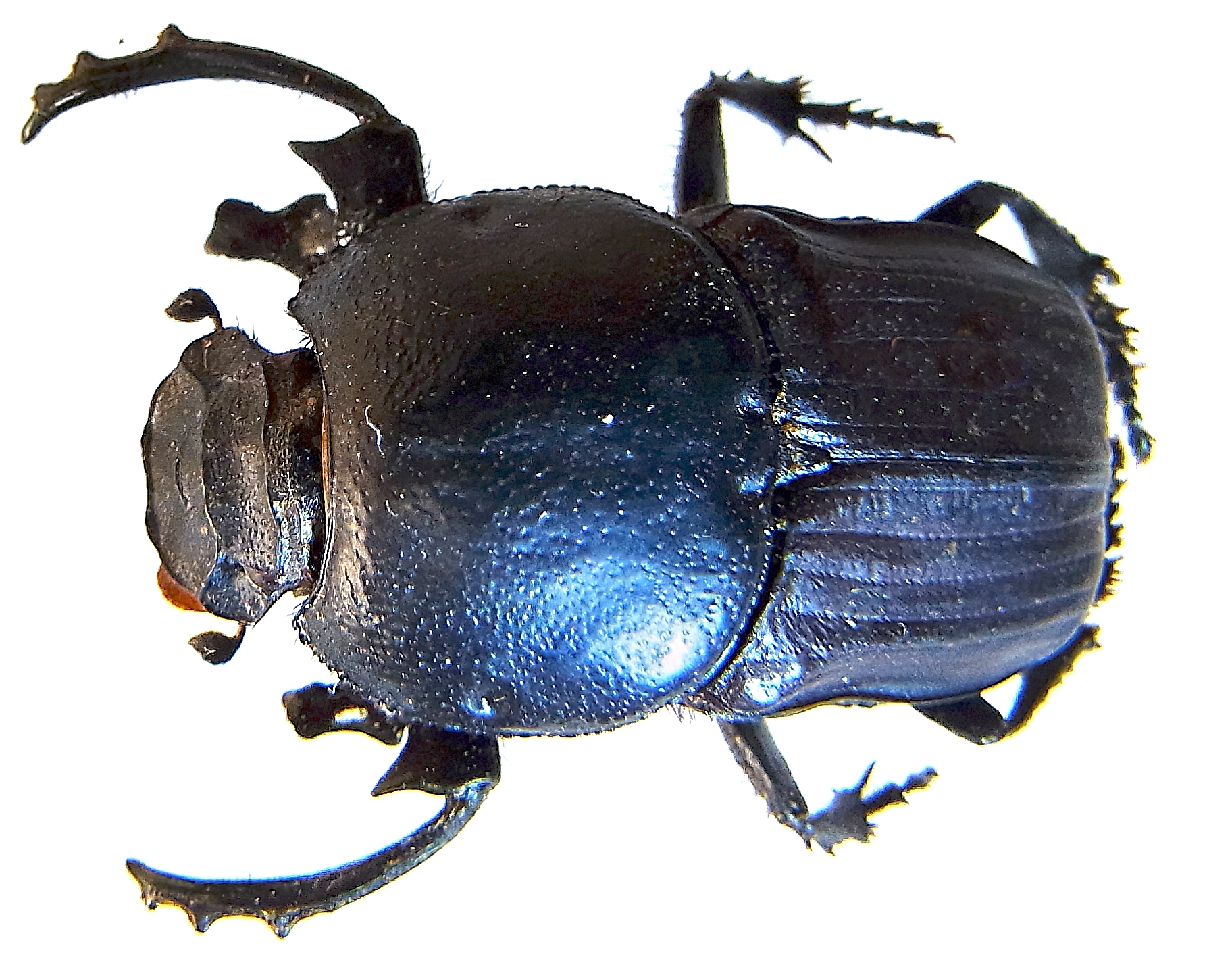 Cheironitis furcifer male, from Northern-Greece near Kleidí at 1996-06-25